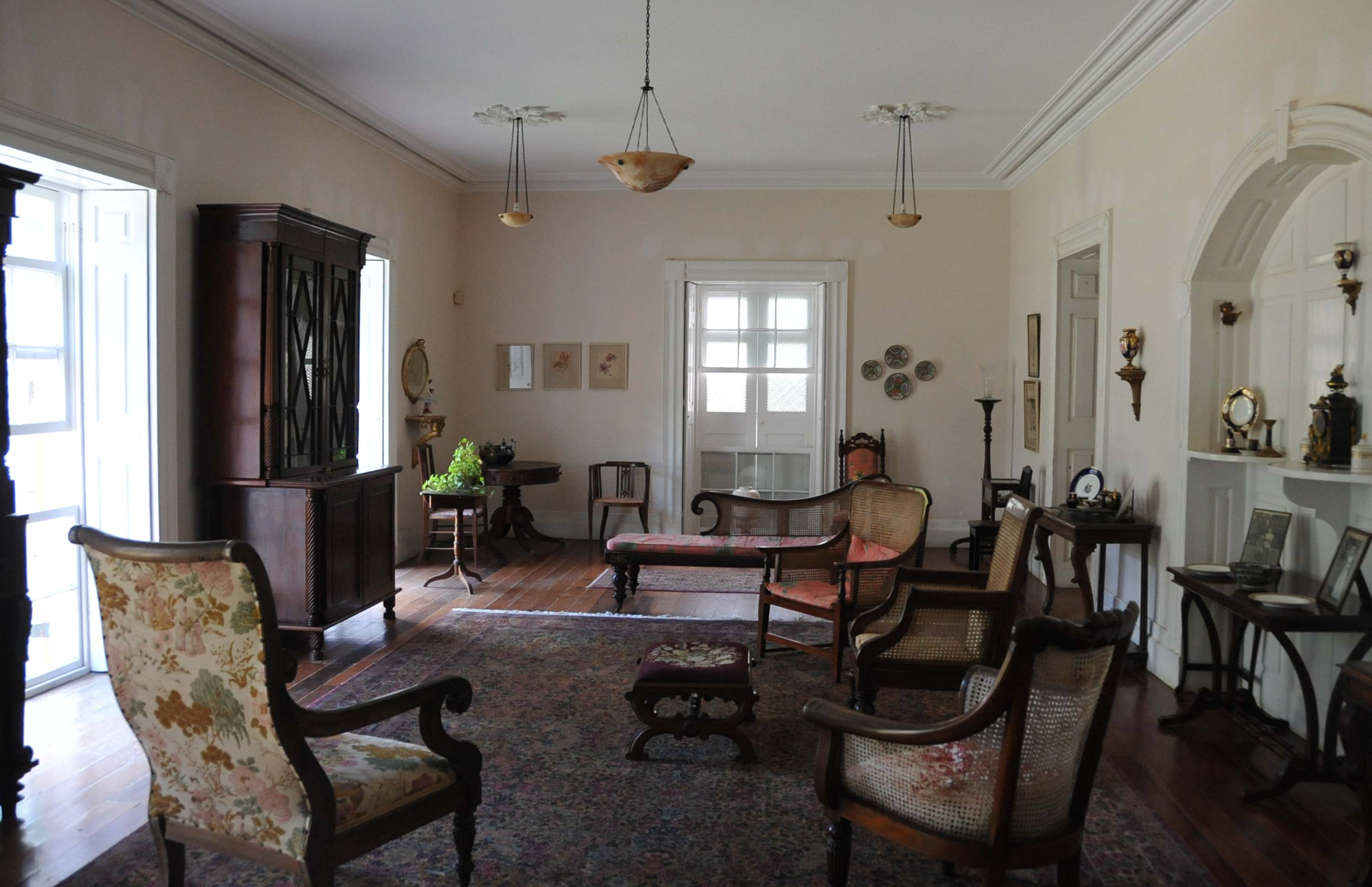 The furniture in the house is all original and dates from the nearly 1800s. This house is the headquarters of the Barbados National Trust.